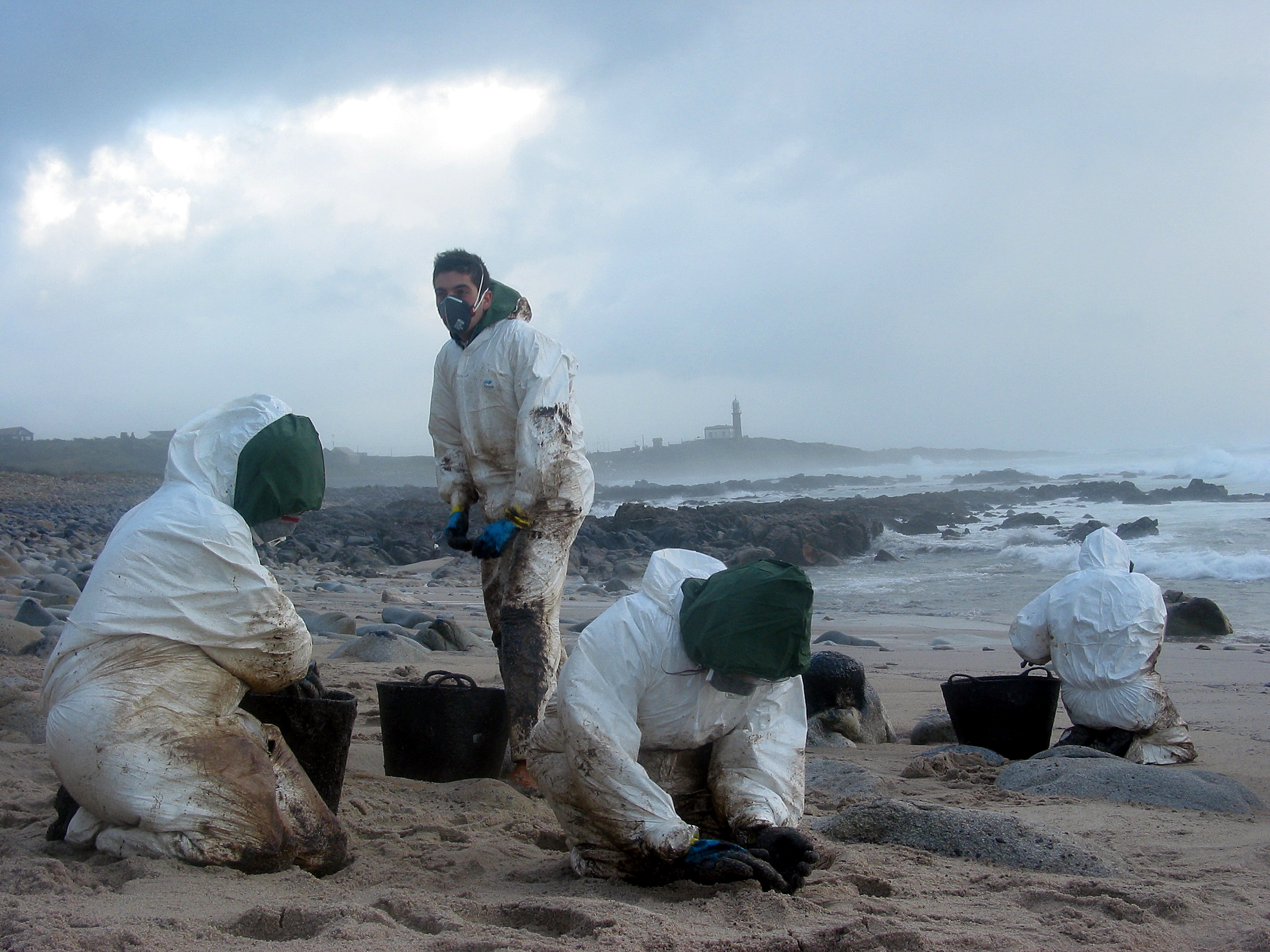 HISTORIAS DEL CHAPAPOTE •Corto Documental 2003 •Dir. Stéphane M. Grueso •Prod. Stéphane M. Grueso •Backpackvideo Films •1 x 35' / color / stereo •DVCAM Tras el vertido del petróleo Prestige frente a las costas gallegas se produce la mayor catástrofe medioambiental de la historia de España. Toneladas y toneladas de petróleo van llegando a las costas. Ante la pasividad o desbordamiento de las autoridades, los ciudadanos se organizan y van a Galicia a ayudar a recoger el fuel. La figura del voluntario nace en España. En este documental seguimos la experiencia de un grupo de 50 voluntarios organizados por la Universidad de Sevilla, que van a Galicia a luchar contra la catástrofe. Durante seis días seguimos sus actividades y nos cuentan sus experiencias. Mediante este documental pretendemos descubrir y comprender las motivaciones que llevan a un grupo de personas a realizar una acción tan solidaria, novedosa y casi desconocida en nuestros días. Más info en: ENGLISH---------------------------------- STORIES OF THE CHAPAPOTE •Documentary 2003 •Dir. Stéphane M. Grueso •Prod. Stéphane M. Grueso •Backpackvideo Films •1 x 35' / color / stereo •DVCAM The spill from the Prestige, the oil tanker which broke up and sank off the coast of Galicia, caused the biggest environmental disaster in Spain's history. Tones and tones of oil kept arriving at the coast. With the authorities failing to act or overtaken by events, ordinary citizens organized themselves and set off for Galicia to help clean up the fuel oil. Thus was the figure of the volunteer born in Spain. This documentary records the experiences of a group of 50 volunteers organized by the University of Seville who went to Galicia to combat the catastrophe. It follows them for six days and they tell us about their experiences. This documentary sets out to discover and understand what motivates a group of people to carry out such a novel act of solidarity, something practically unheard of nowadays. More Infos in